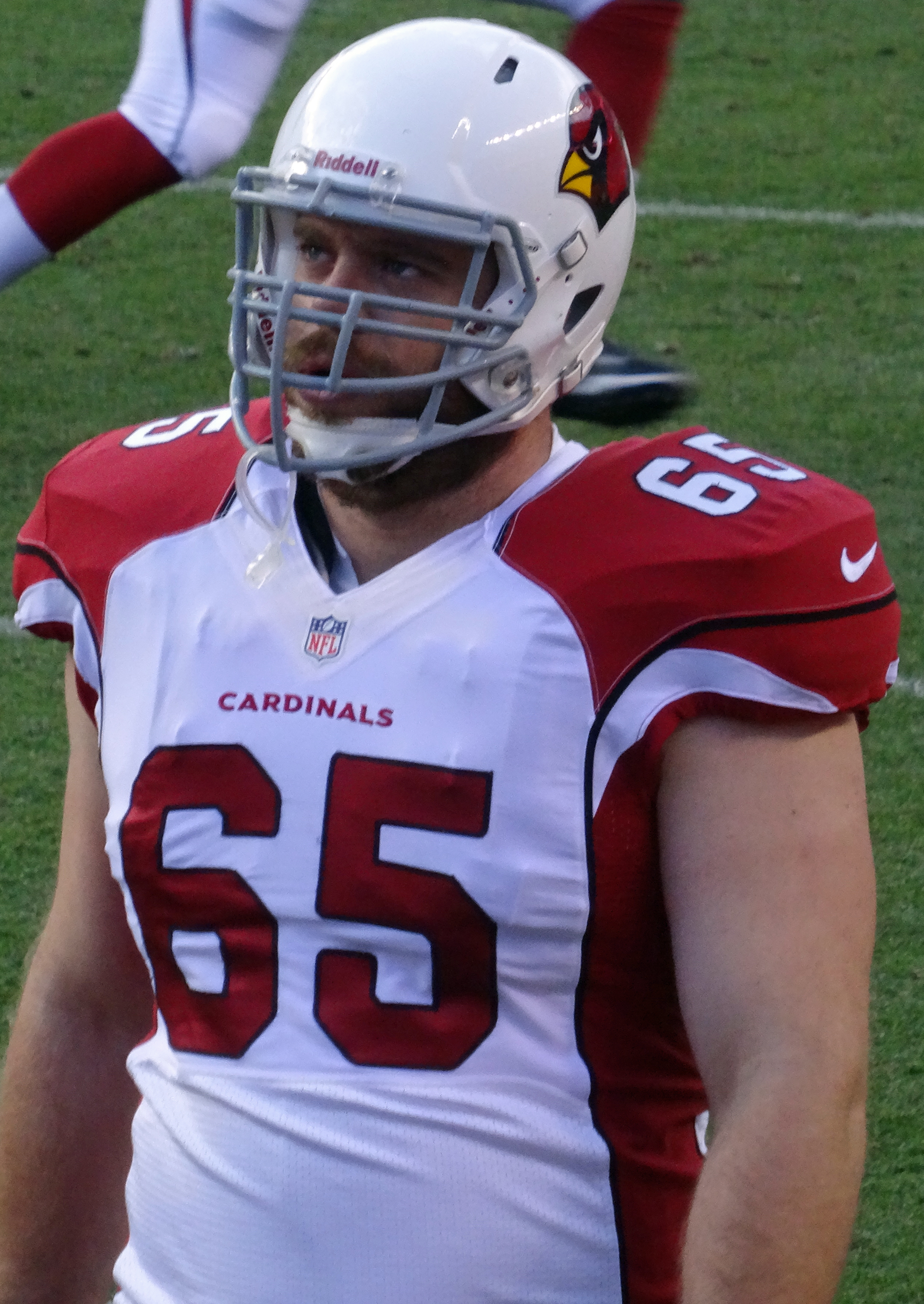 Eric Winston, a player on the National Football League.